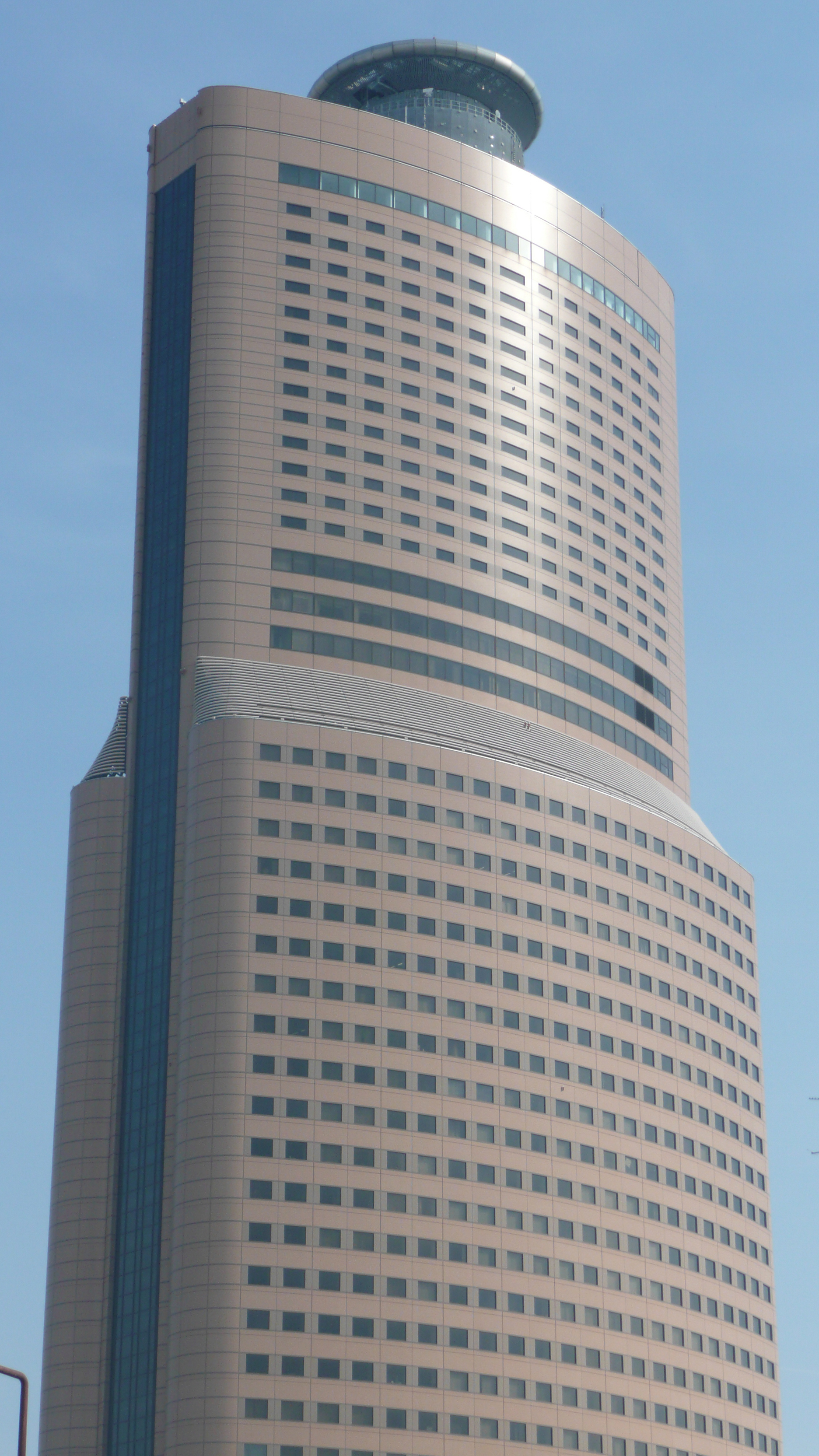 Act Tower in Hamamatsu, Japan